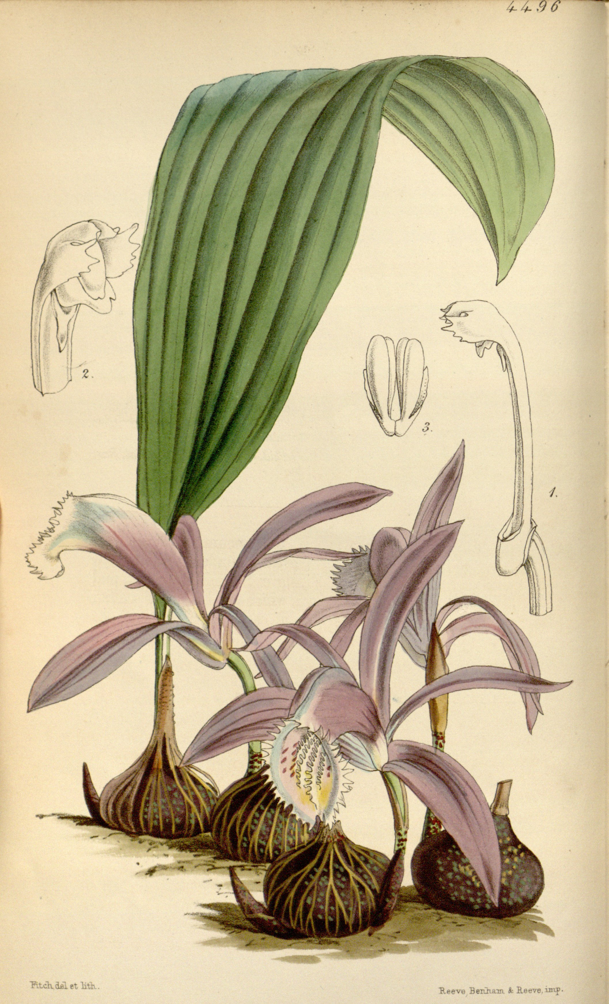 Illustration of Pleione praecox (as syn. Coelogyne wallichiana or Coelogyne wallichii)